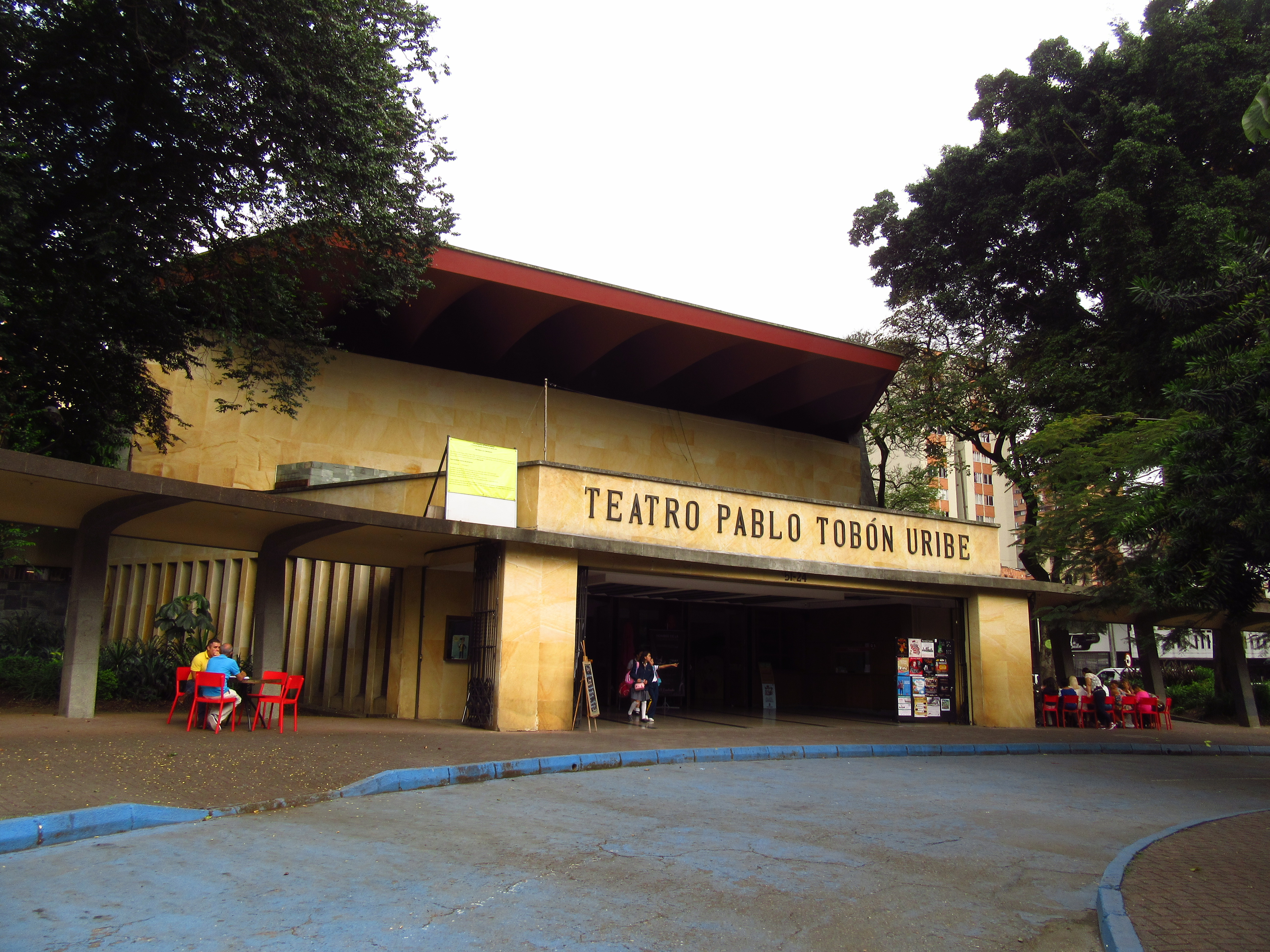 Medellín